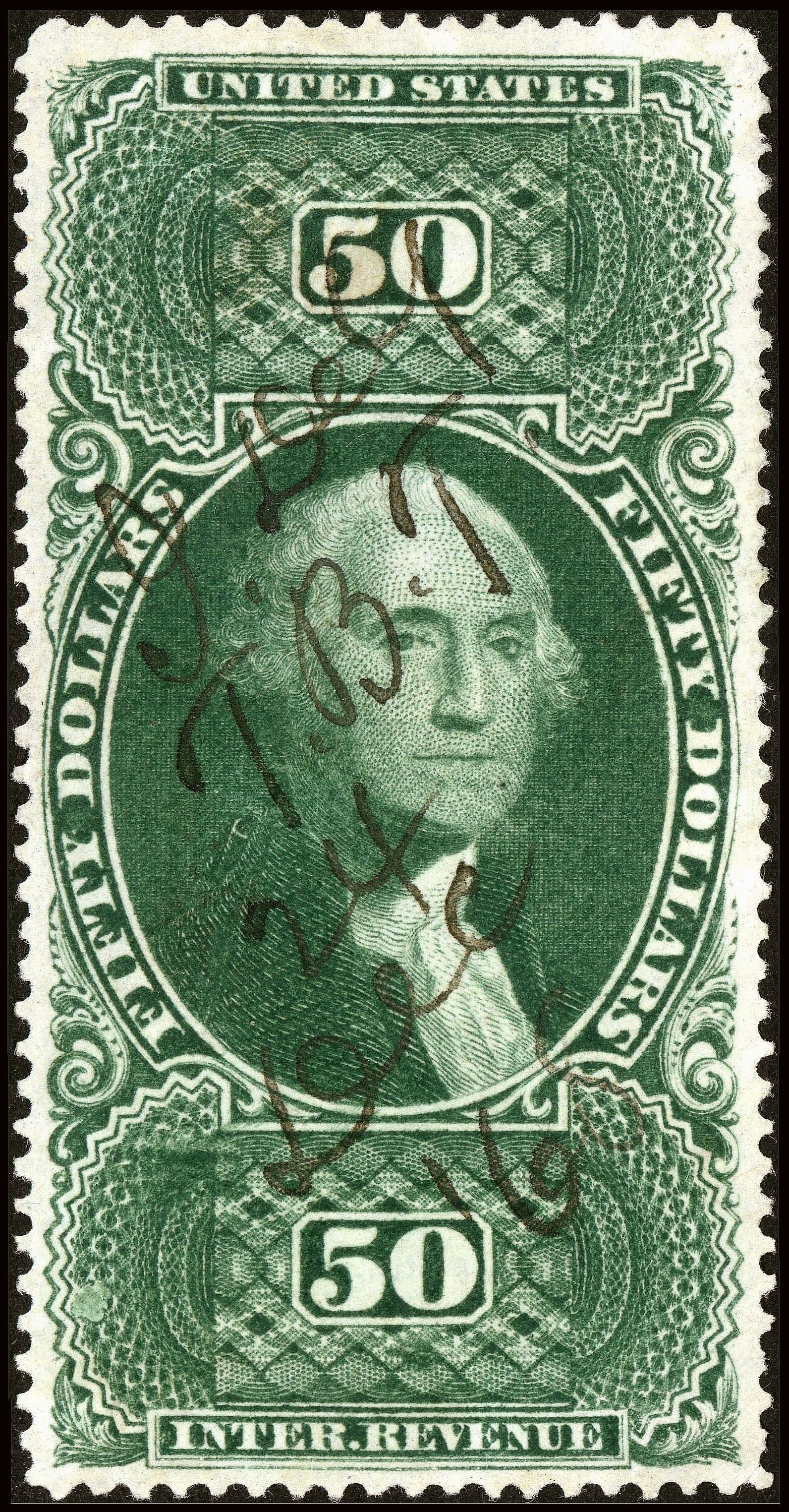 Image of U.S. Revenue stamp, Washington, $50, issue of 1863 (Scotts# R101c )